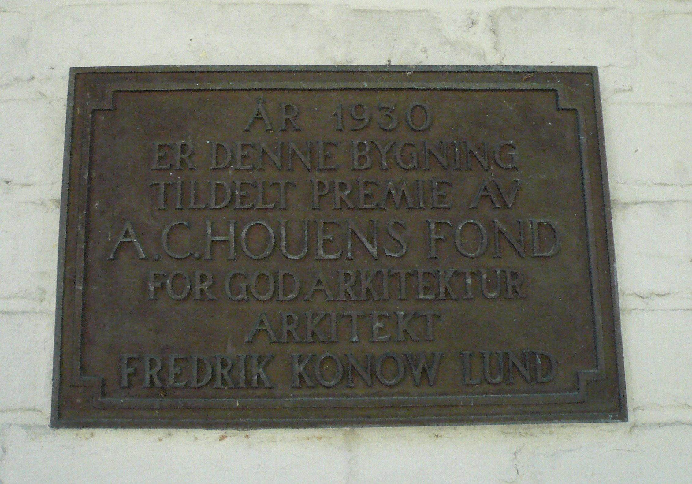 Villa Blauauw, Bergen, Norway